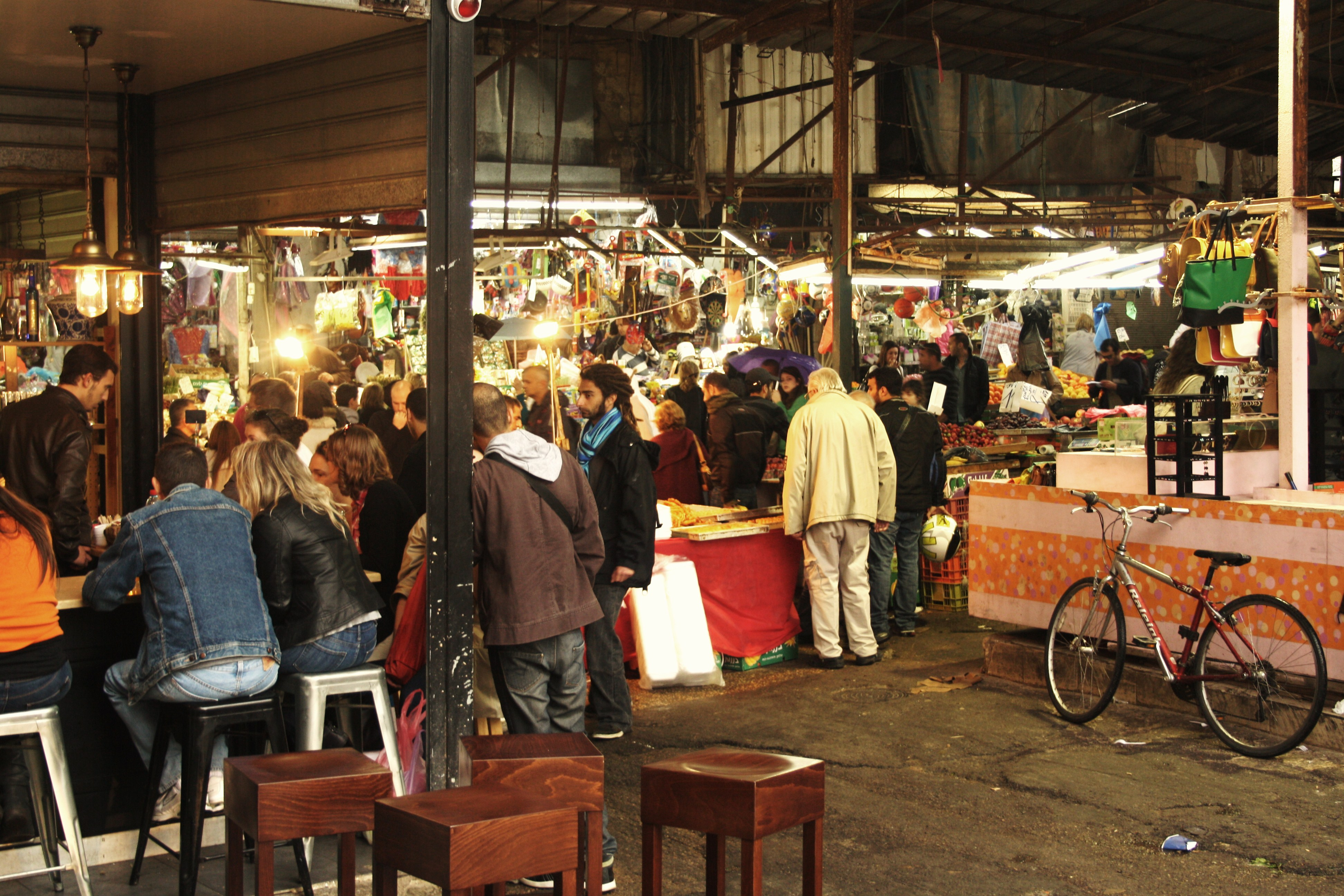 Carmel Market, Tel Aviv